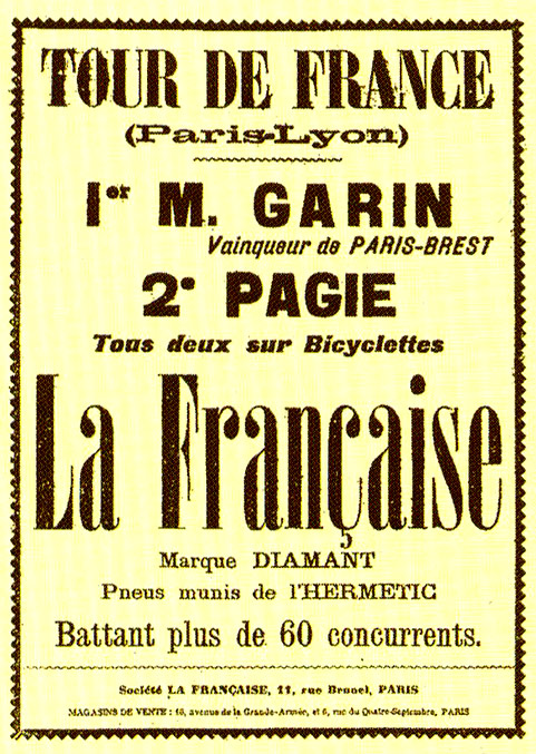 Tour de France 1903. Advertising of the first cycle racing.